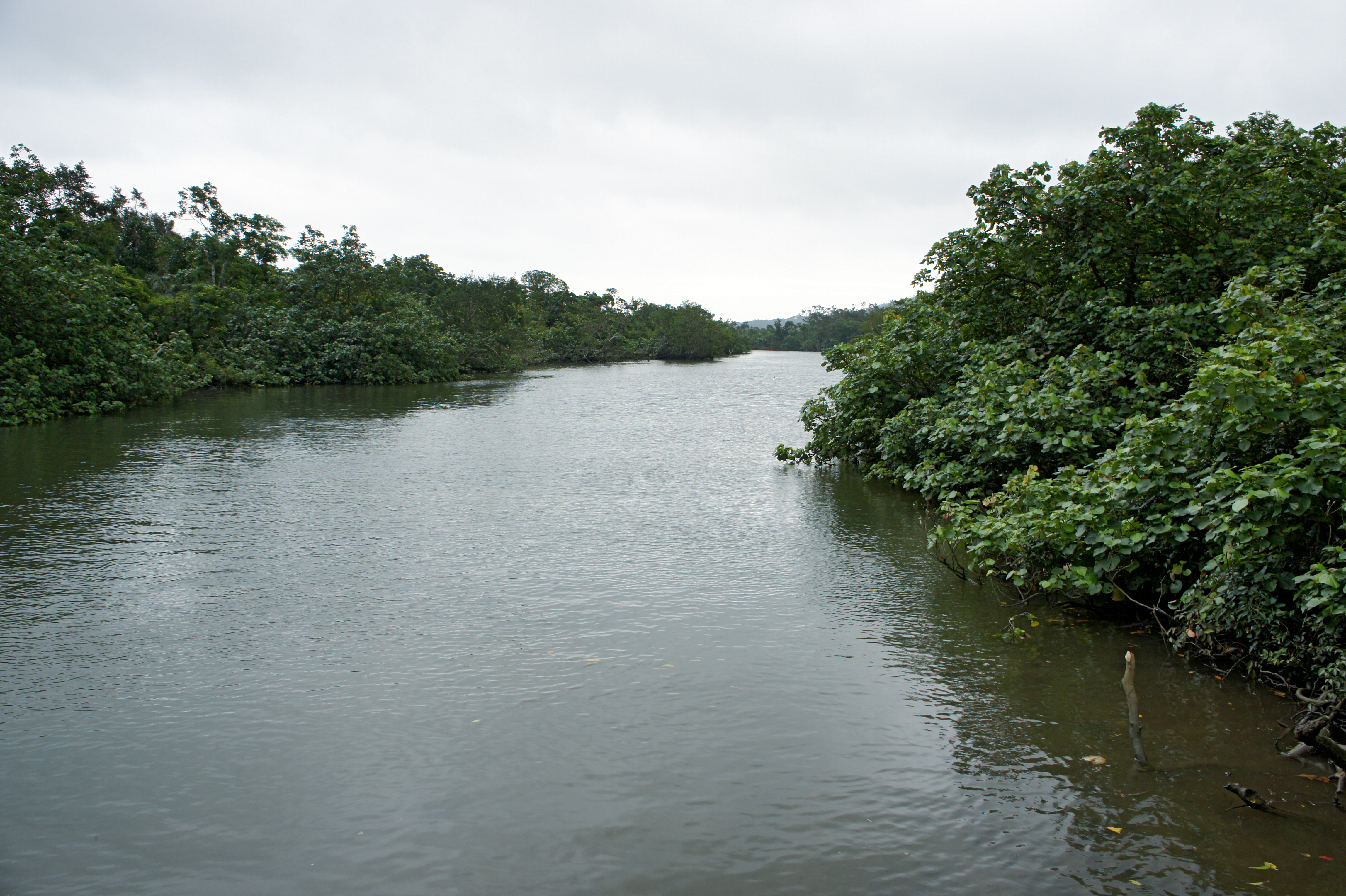 Nakama_River in Iriomote Island, Taketomi Town, Okinawa Prefecture, Japan.